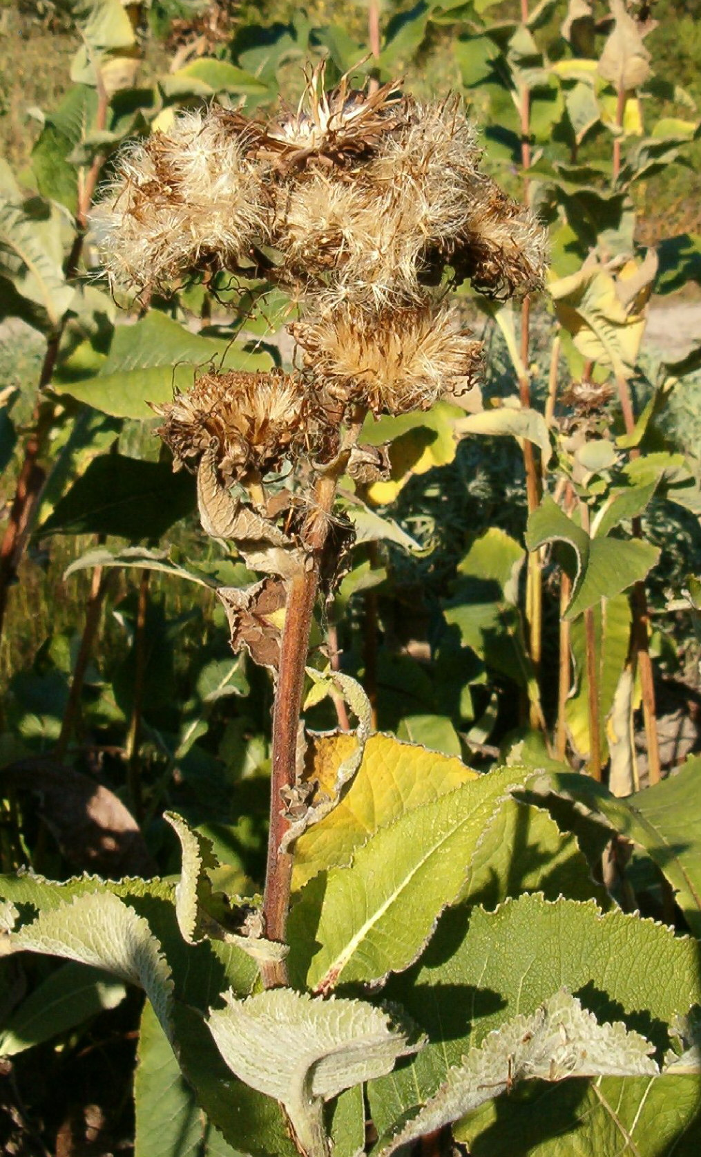 Inula helenium Location: Botanical Gardens Berlin Habitus and Fruits